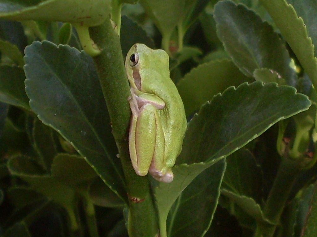 Category:Hyla sarda (Villacidro, Sardinia)